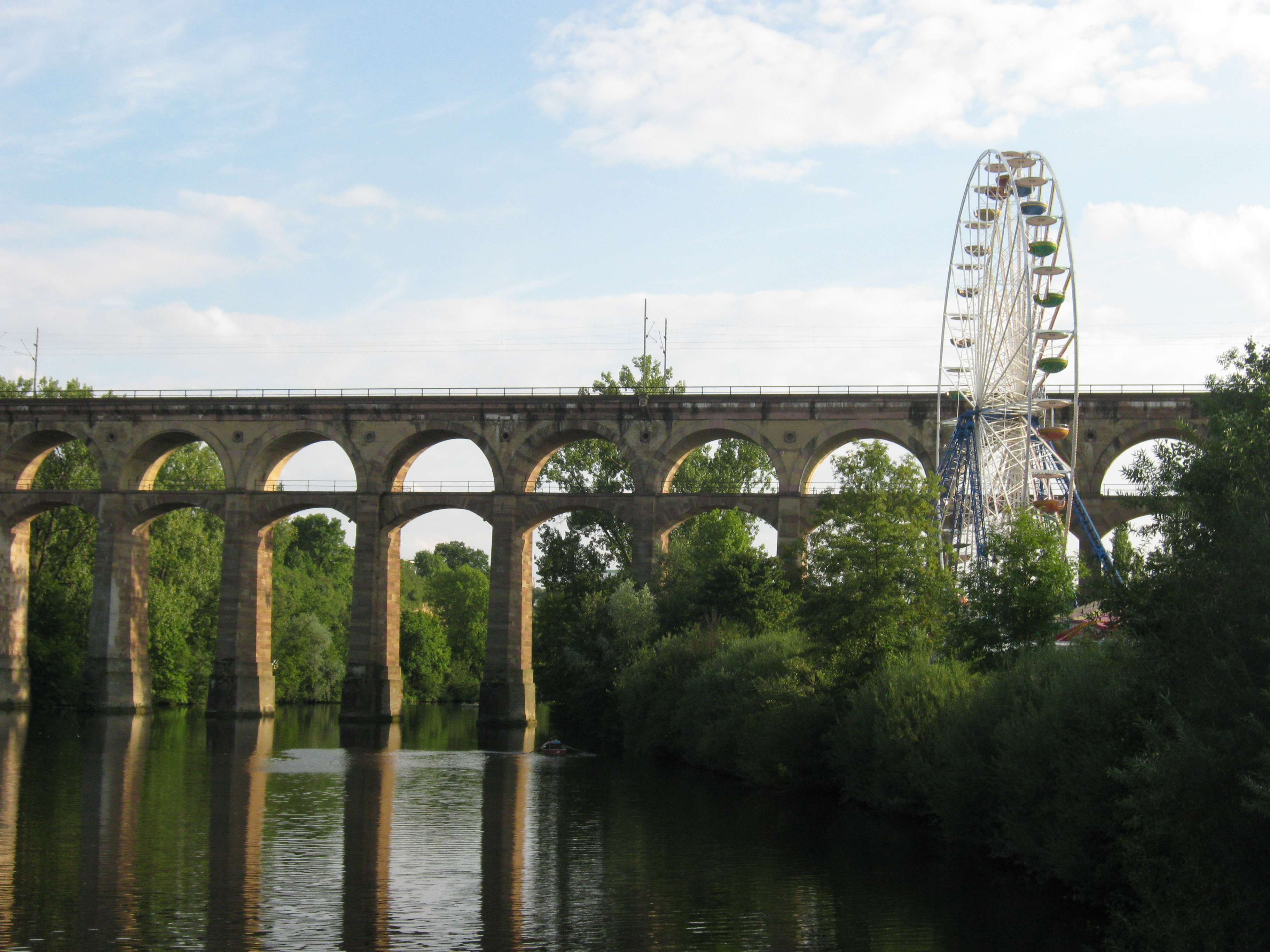 Famous Bietigheim railway bridge with Ferris wheel of Bietigheim Horsemarket